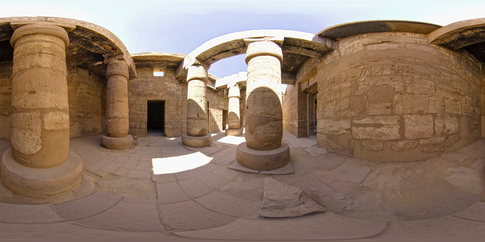 Spherical panorama image of the Hipostyle Hall at the Temple of Karnak Luxor, Egypt